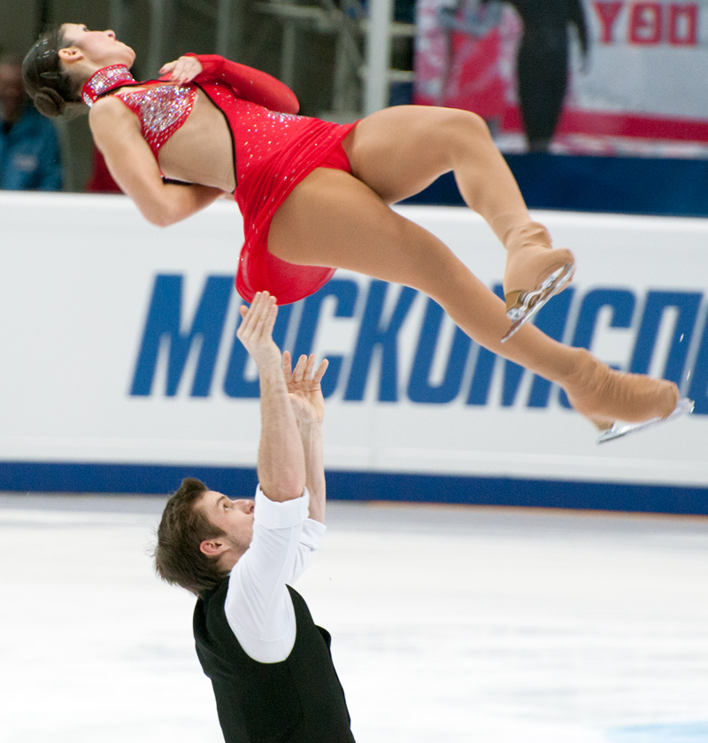 2011 Cup of Russia, short program.